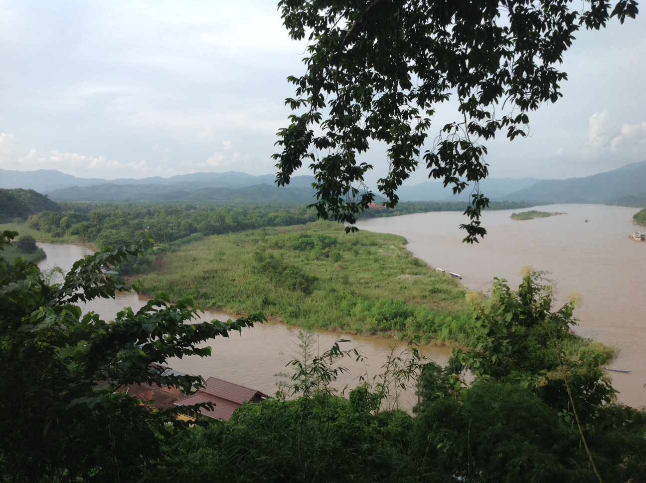 Ruak River meets with the Mekong River in Chiang Rai, Thailand, all 3 countries (Thailand, Laos, Myanmar) meet with eachother